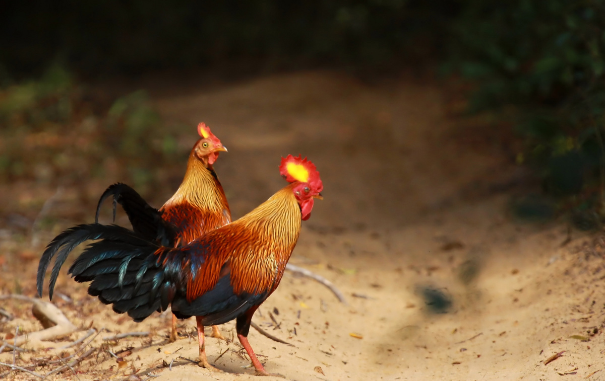 Sri Lanka Junglefowl at Wilpattu National Park, Sri Lanka.